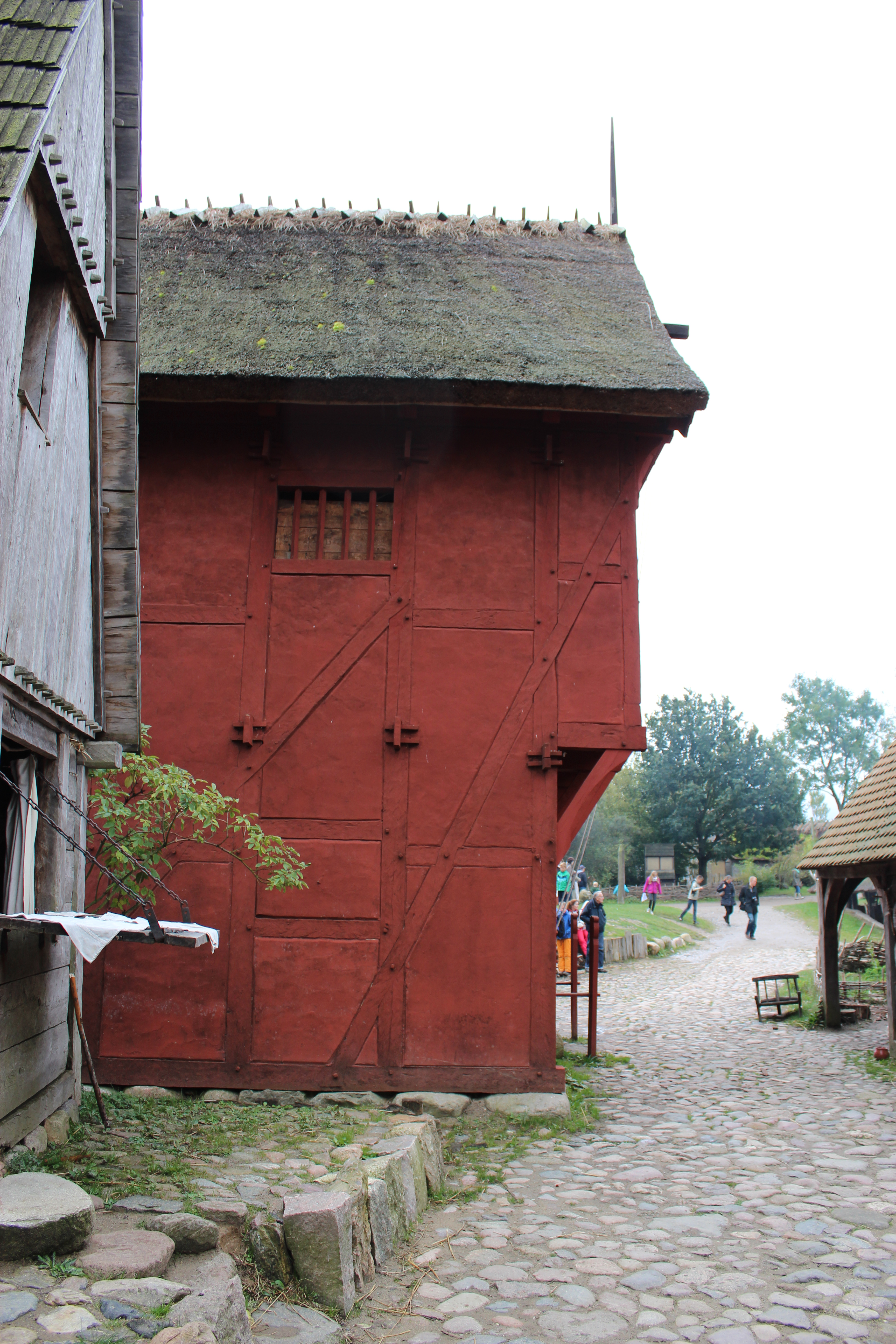 Big Merchants house at Middelaldercentret in Sundby, Lolland, Denmark